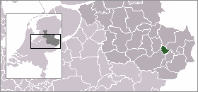 Location of Borne